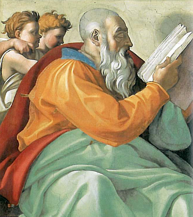 fresco painted by Michelangelo and his assistants for the Sistine Chapel in the Vatican between 1508 to 1512